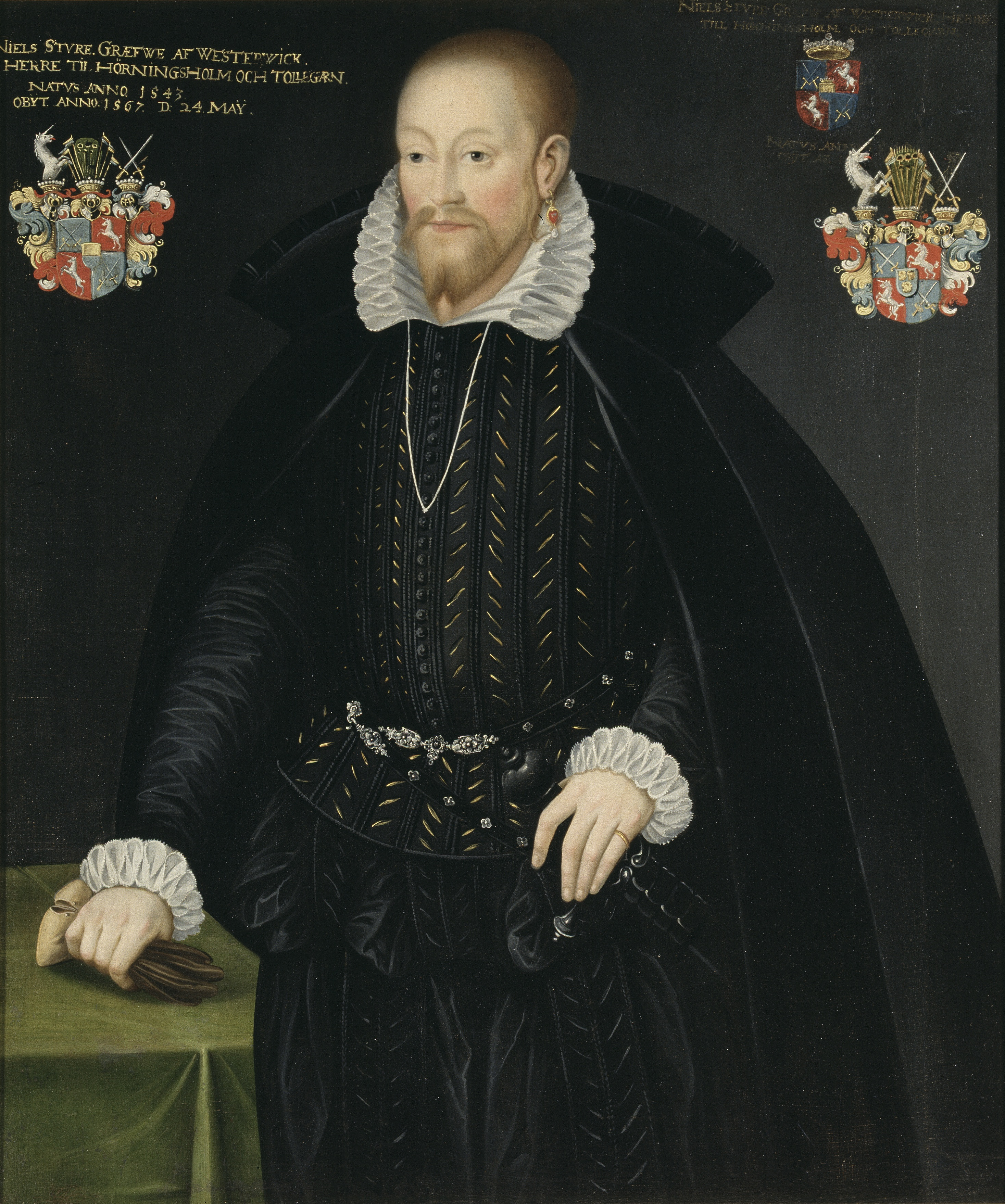 Copy after contemporary original